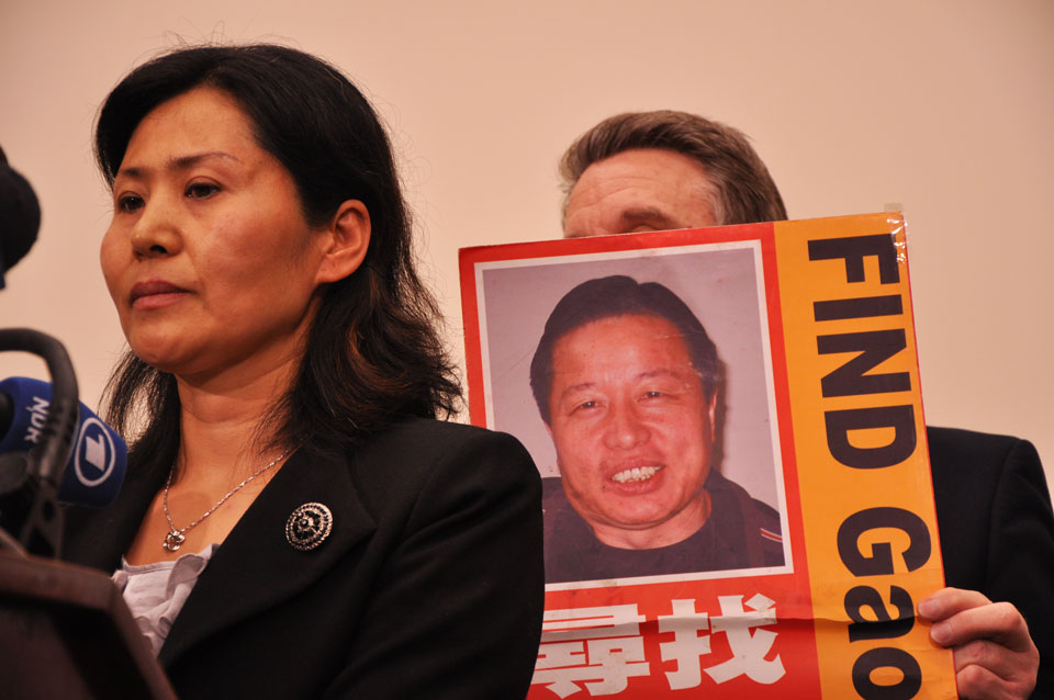 Geng He, wife of imprisoned Chinese dissident Gao Zhisheng, speaks at a press conference Tuesday. (Nina Lincoff/Medill News Service)